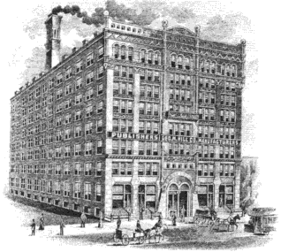 "The George M. Hill Company, Chicago, the publishers of The Wonderful Wizard of Oz"